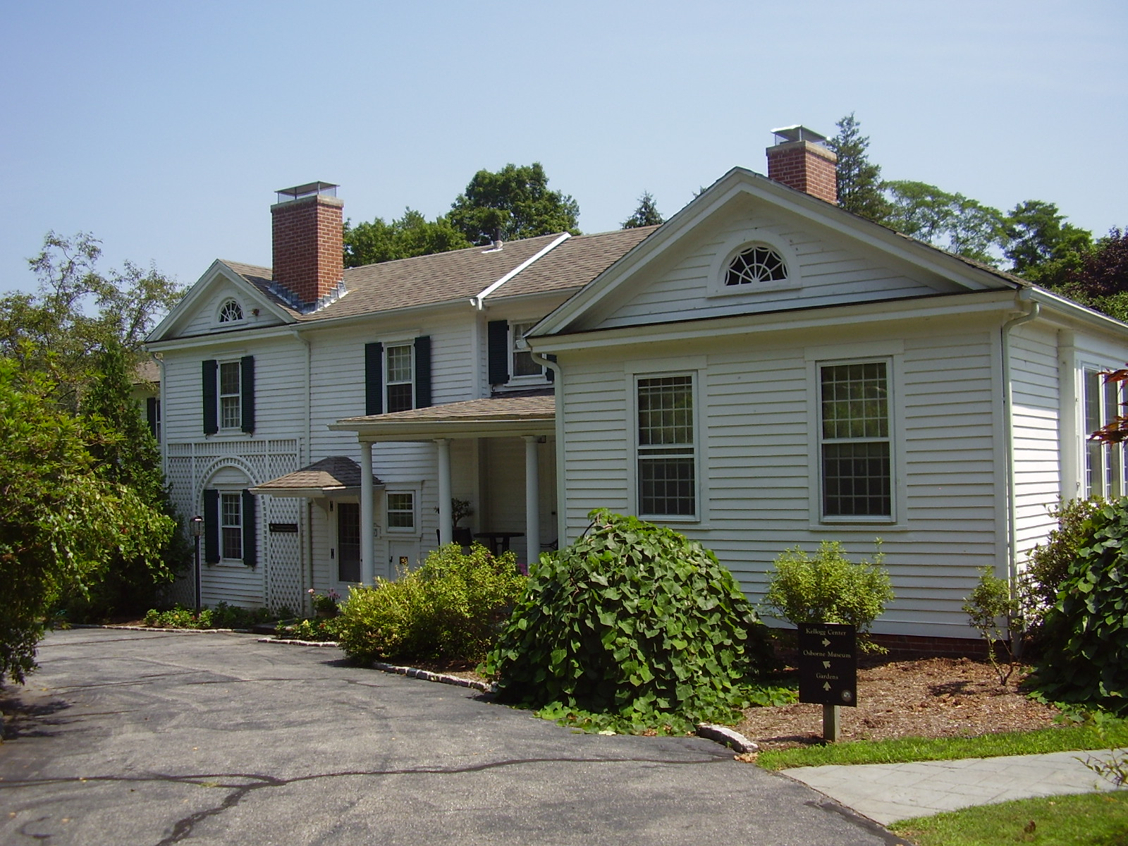 Osbornedale house in Derby, Conn.